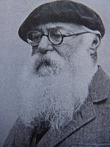 Francis Jammes (1868-1938) - French poet and writer.